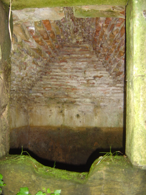 Arthez - houn Pau - reservoir